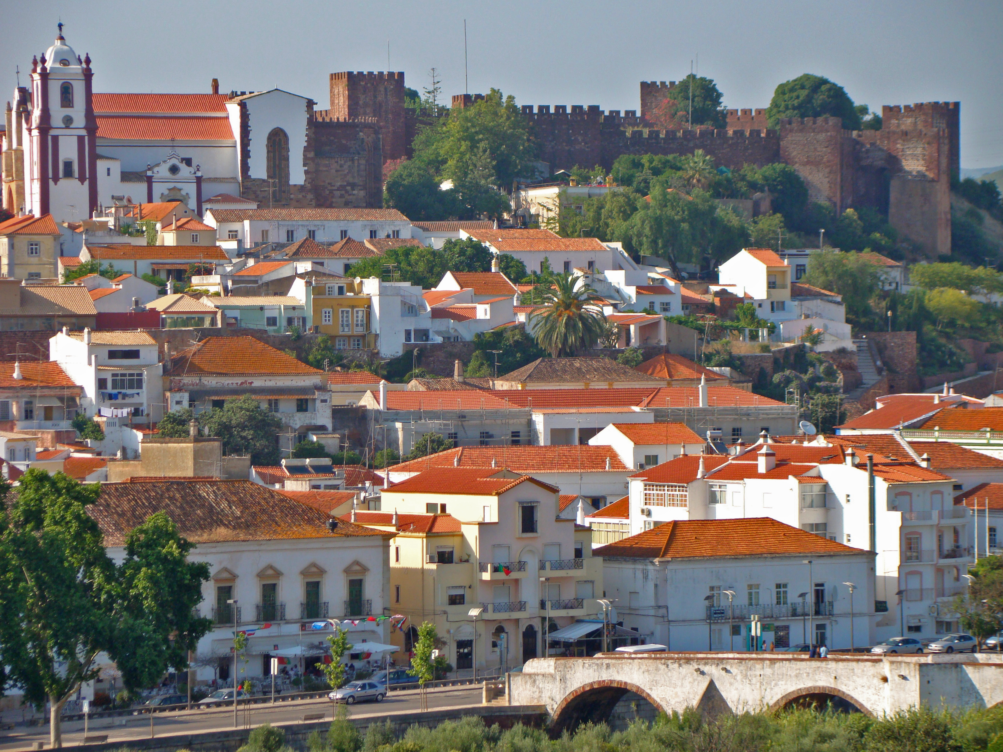 City of Silves